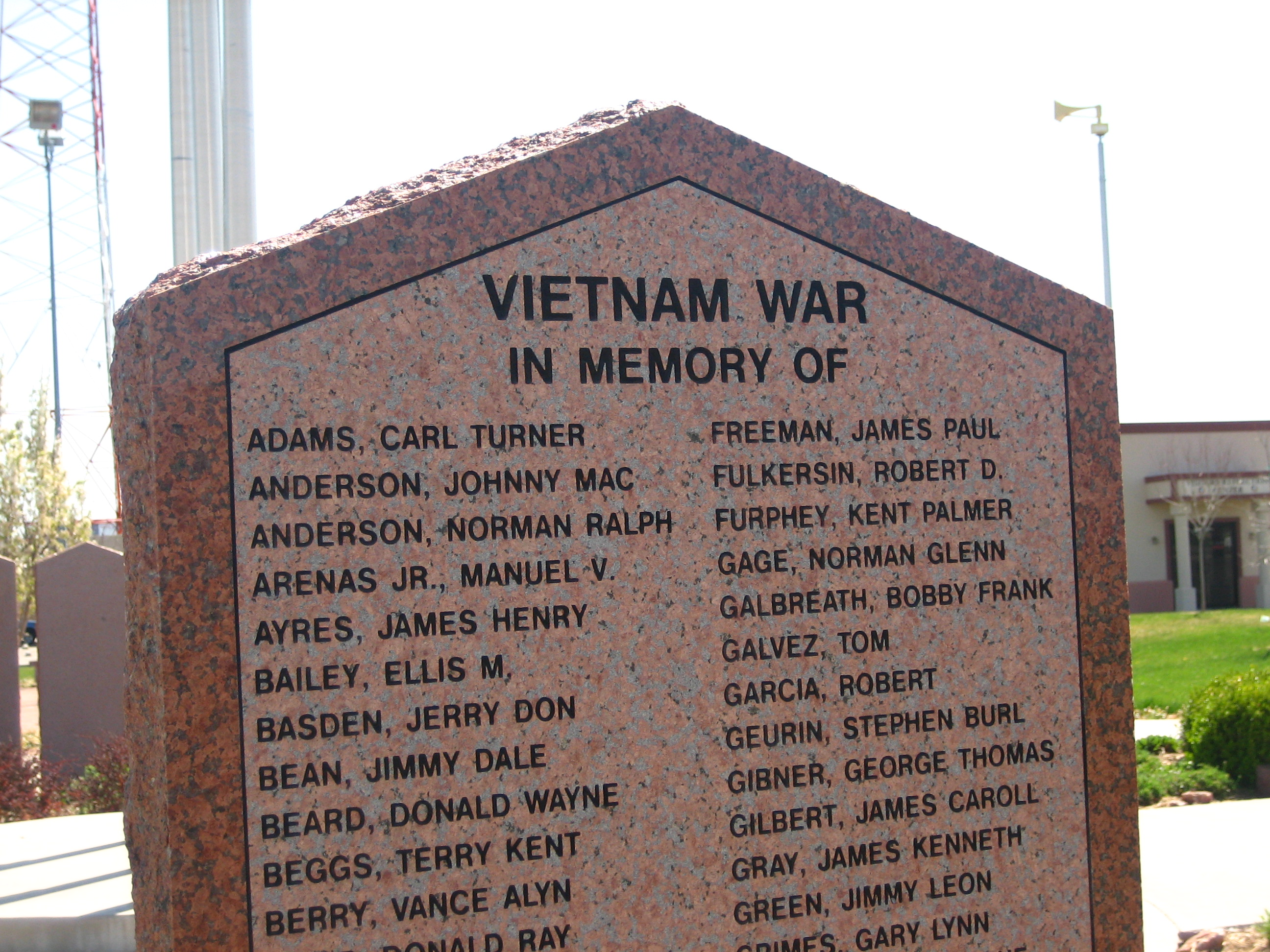 I took photo on April 6, 2008.Billy Hathorn (talk) 03:52, 27 June 2008 (UTC)